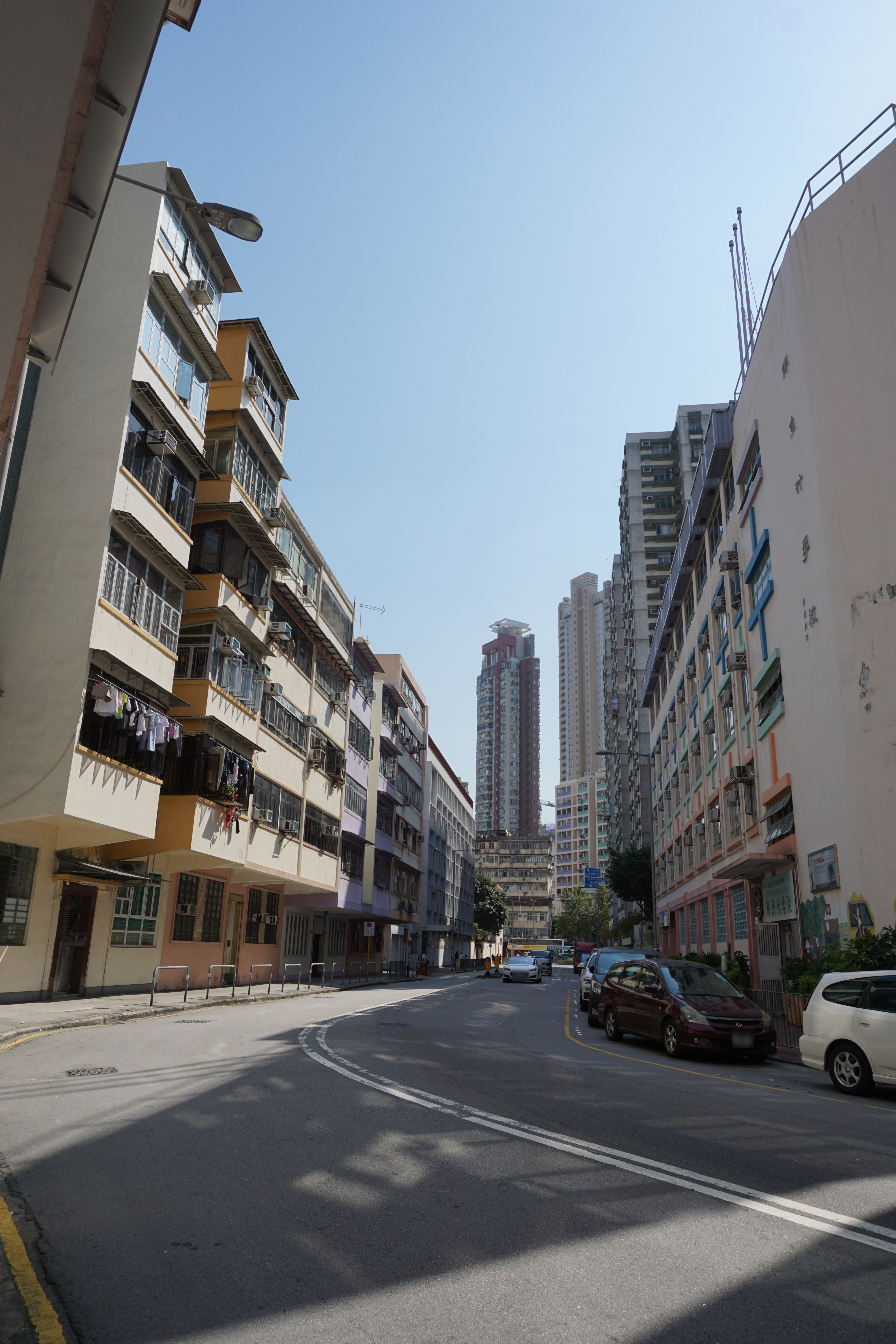 Sycamore Street in Tai Kok Tsui, Hong Kong.